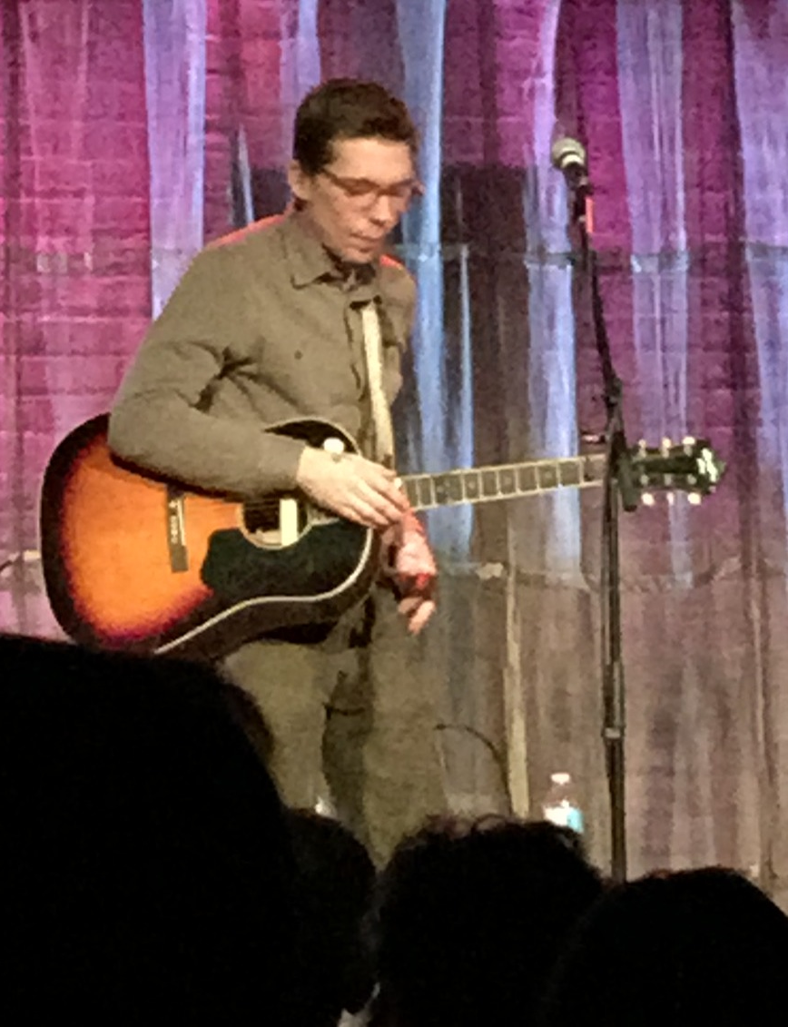 Justin Townes Earle performing on 10 December 2014 at the Evanston SPACE in suburban Chicago.